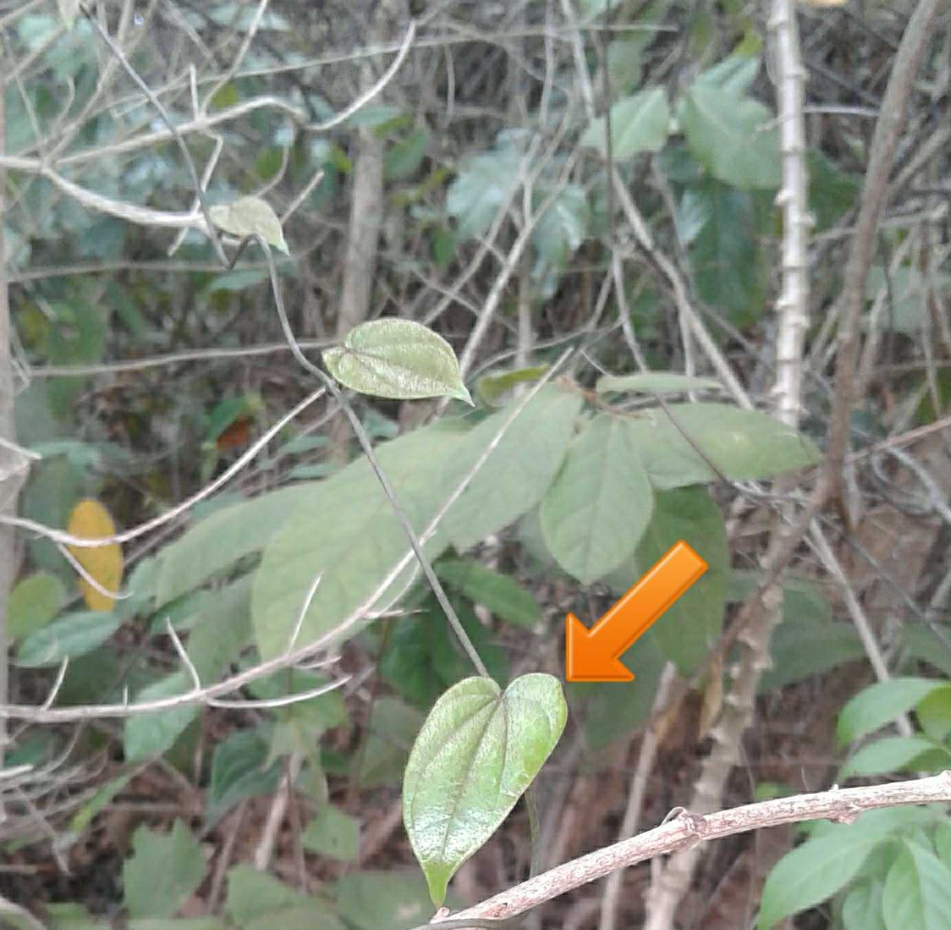 Tanzanian vine (related to Dioscorea villosa) known as mtipu.